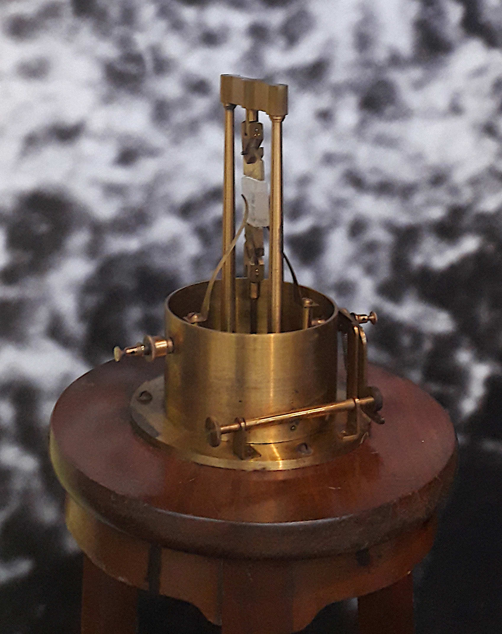 The Compensator could produce very small electric currents (in the region of picoamps) by exerting changing tensile forces on a crystal in the top of the equipment. This view shows the piezo crystal and the electrical connections to conduct the current. This type of apparatus was used in Pierre and Marie Curie's discovery of radium and polonium